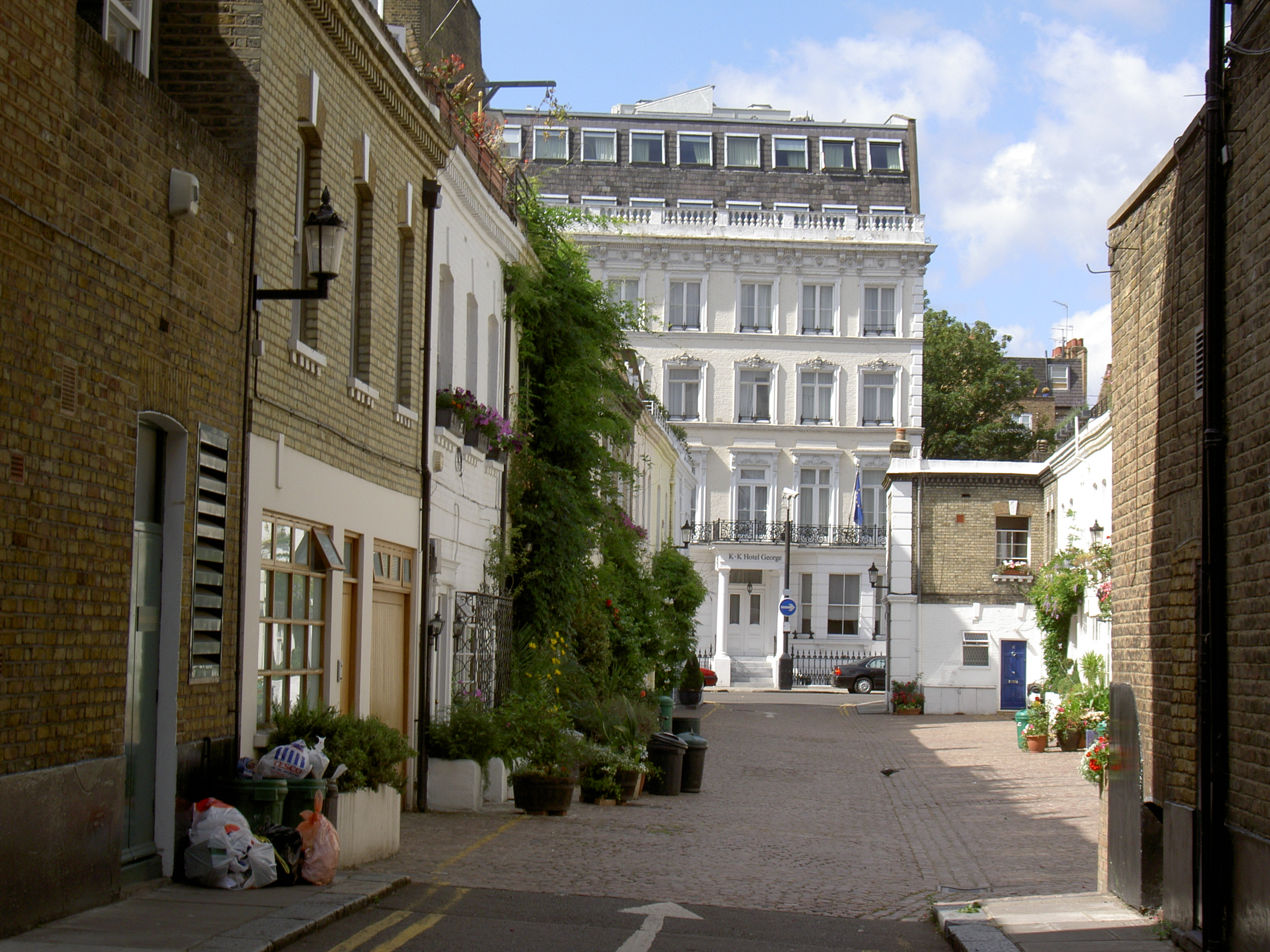 Typical street of the Royal Borough of Kensington and Chelsea in London. (Spear Mews, looking towards the K + K George Hotel, 1, Templeton Place)